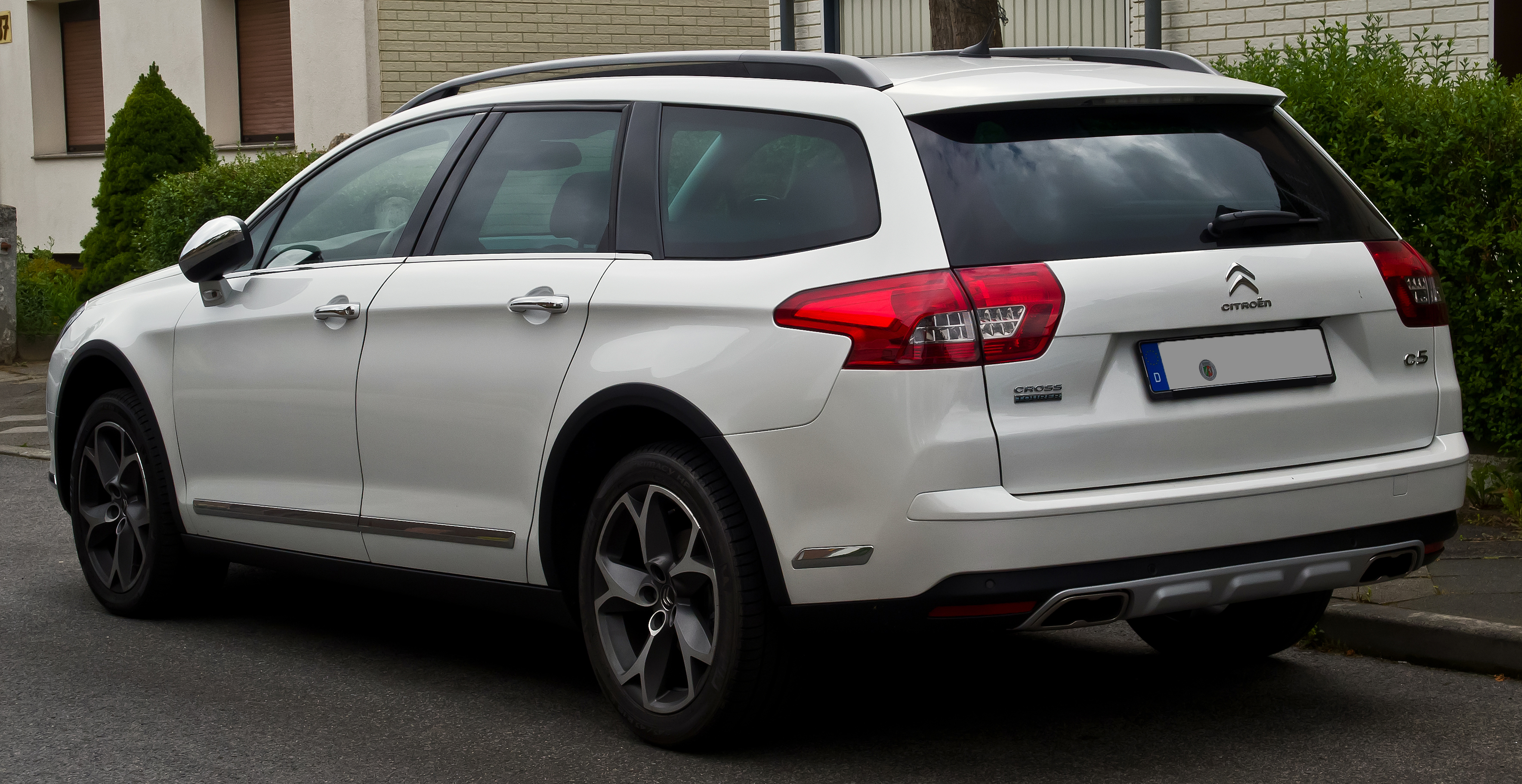 Citroën C5 CrossTourer HDi 200 (II, Facelift)